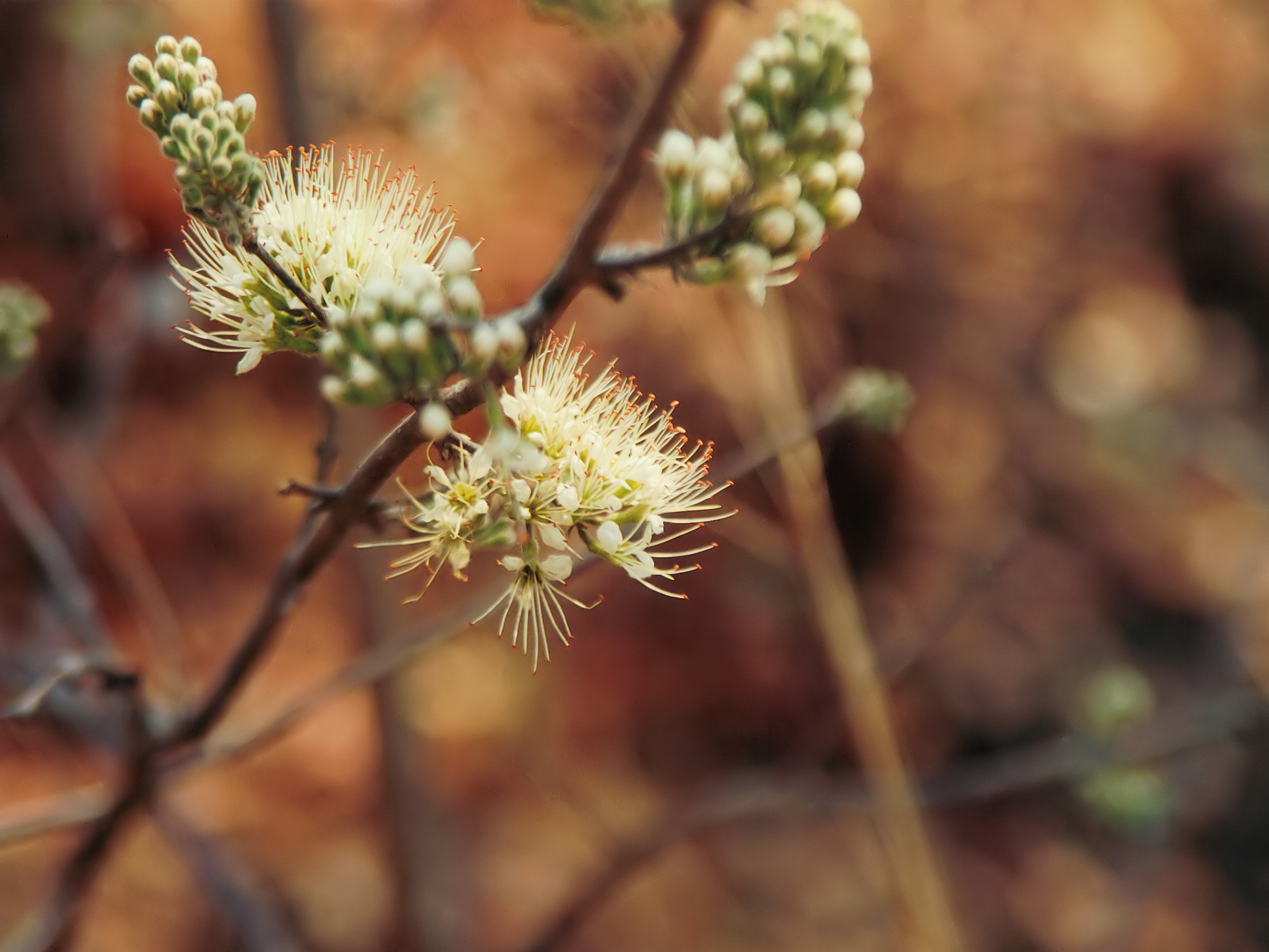 In South Luangwa National Park, Zambia.Scanned from photograph